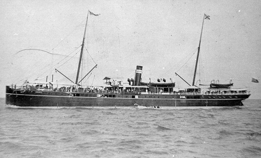 SS Karagola was a British passenger and cargo steamer of 1,168 tons built at A & J Inglis, Pointhouse, Glasgow, in 1887 for the British India Steam Navigation Company Glasgow & London.